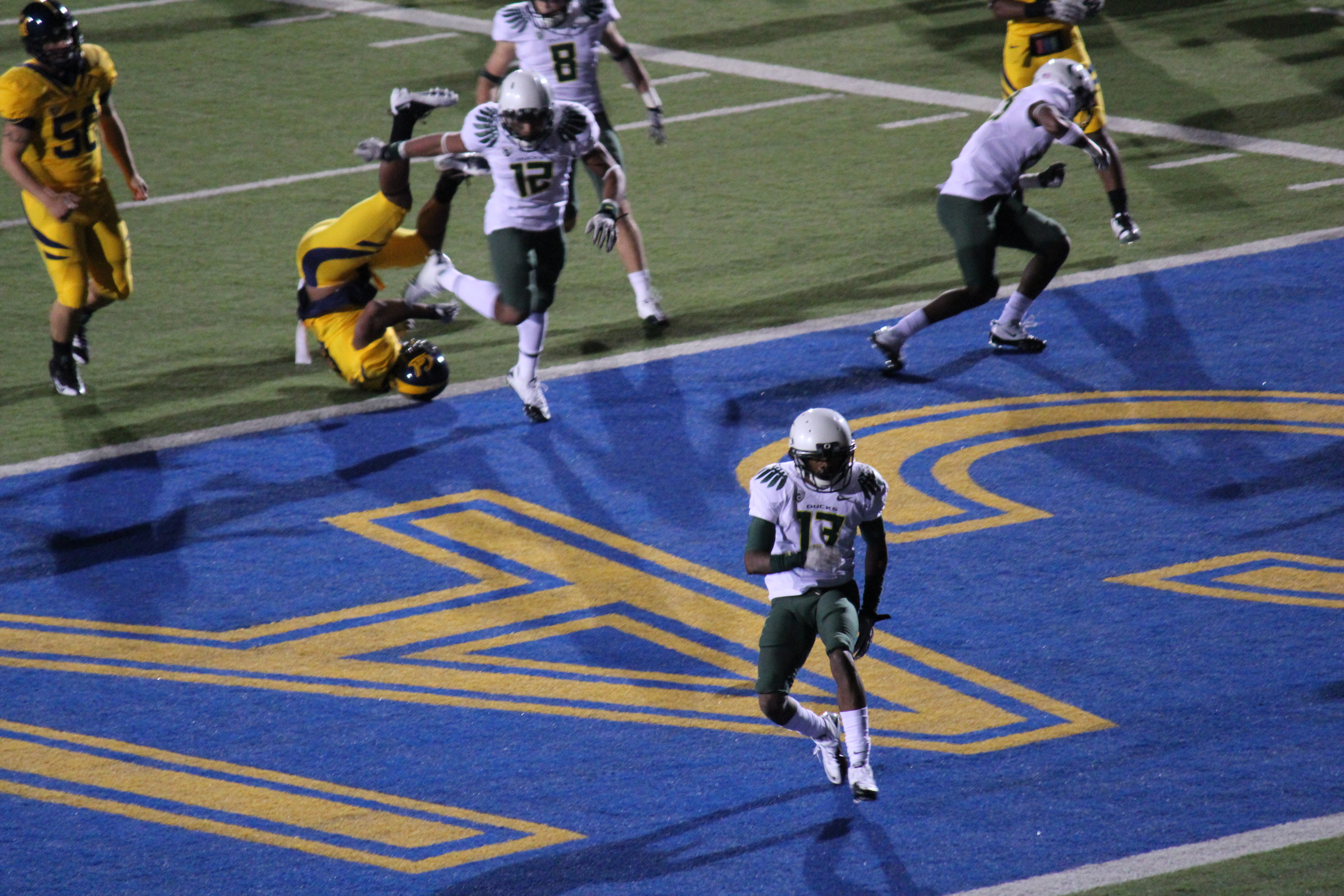 Oregon punt returner Cliff Harris scores a touchdown on a punt return during an away game against the California Golden Bears in Berkeley. The Ducks won 15-13.